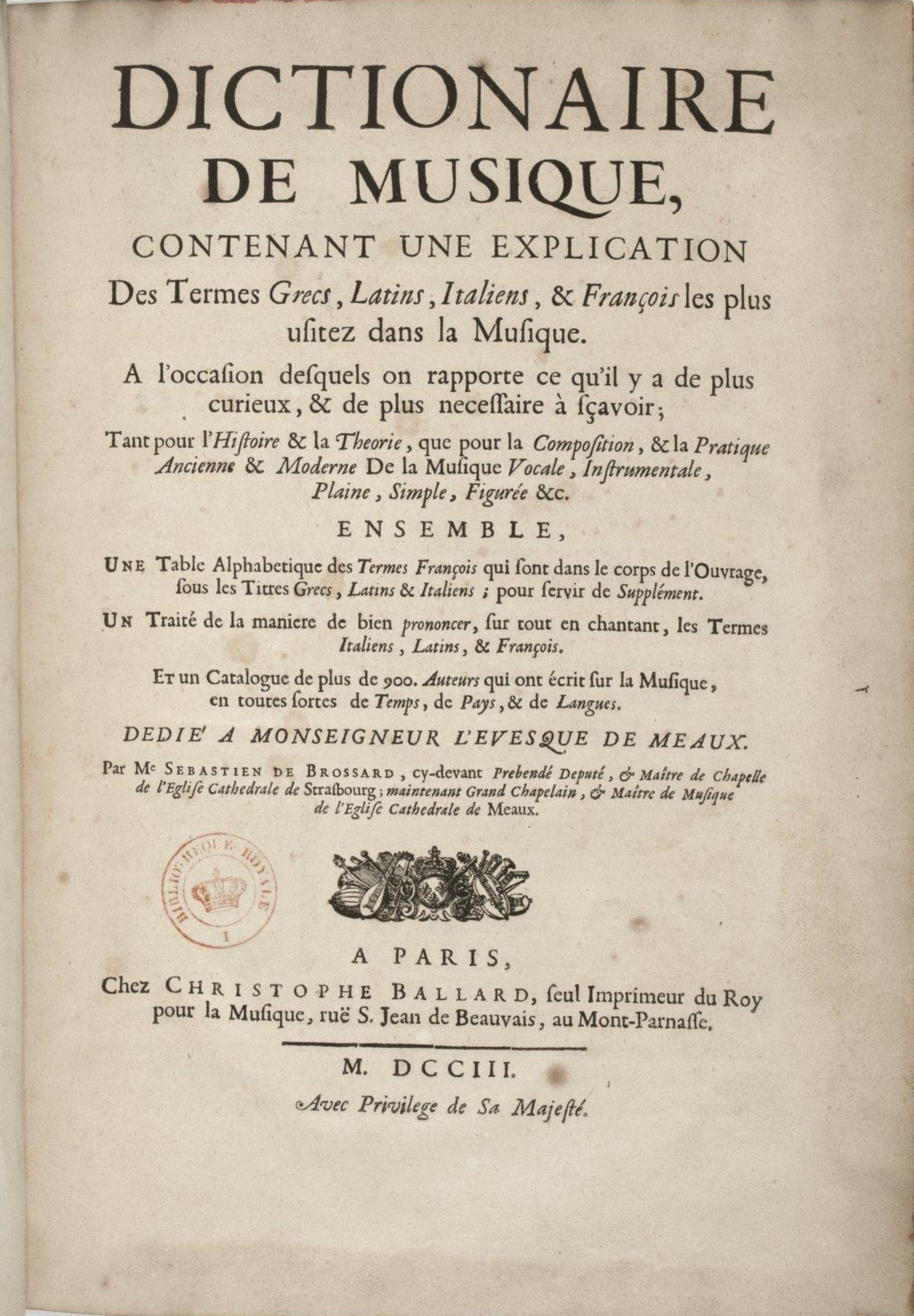 Title page of Dictionaire de musique by Sébastien de Brossard.